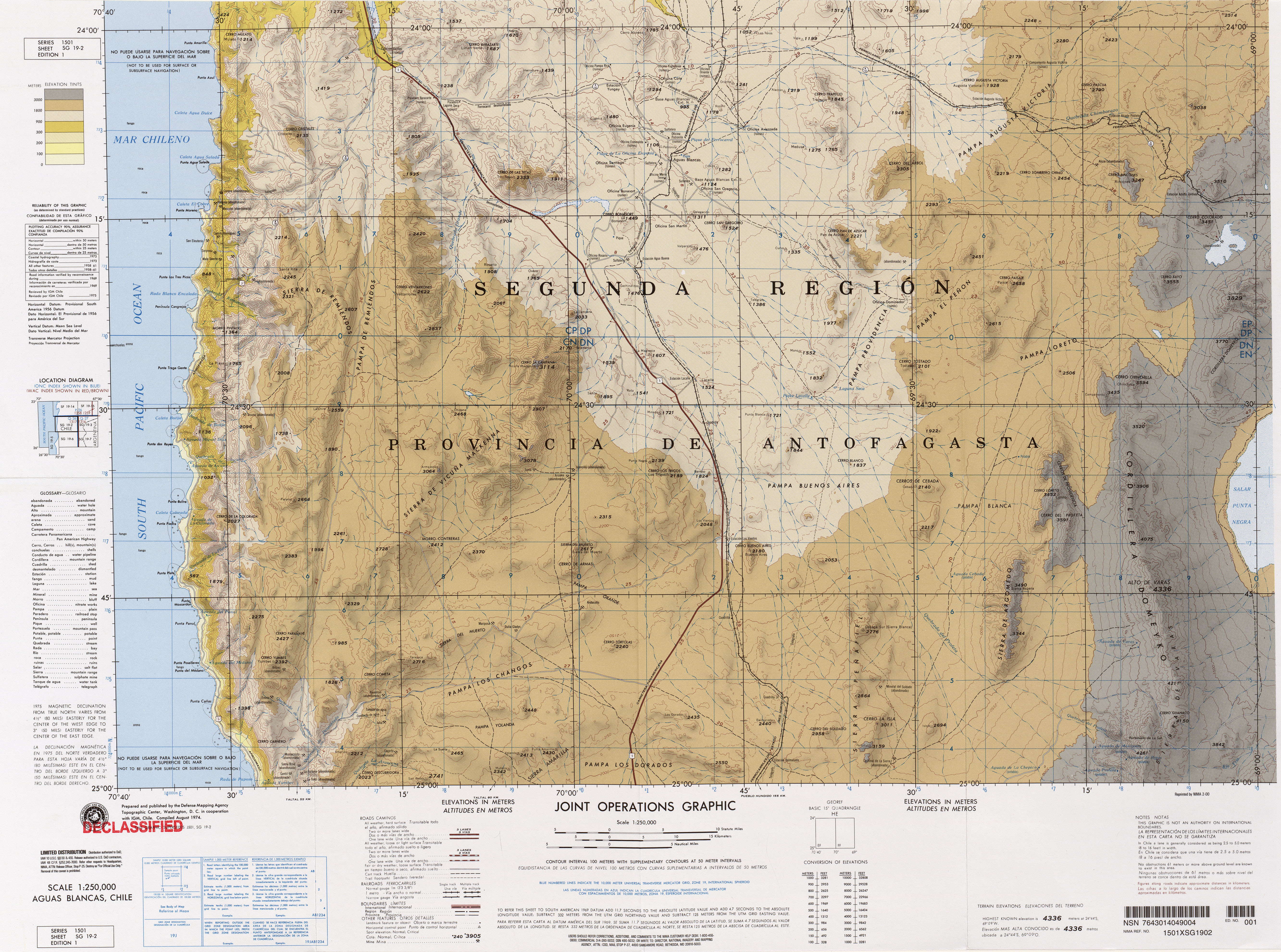 Cordillera de Domeyko hasta el Pacifico